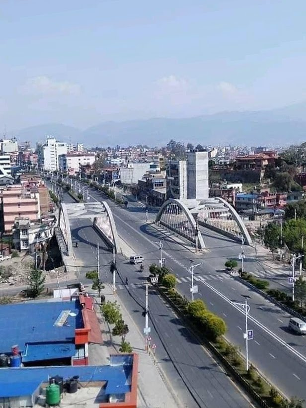 Kathmndu city during 2020 COVID-19 lockdown